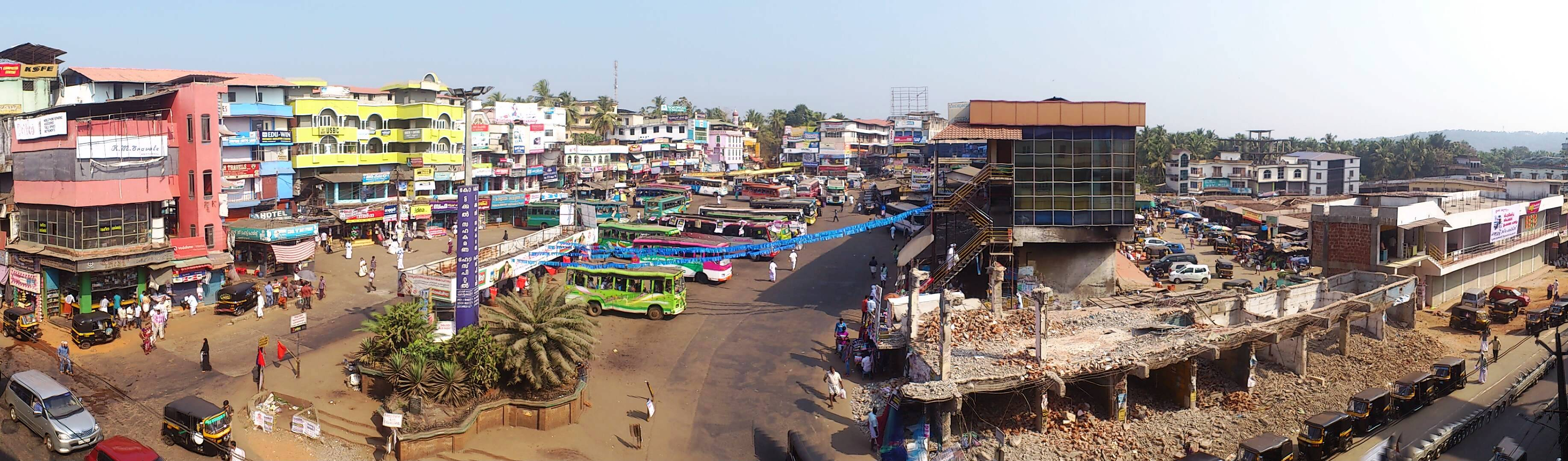 The Heart of Kottakkal